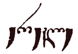 The document from Erekle the second, his signature.